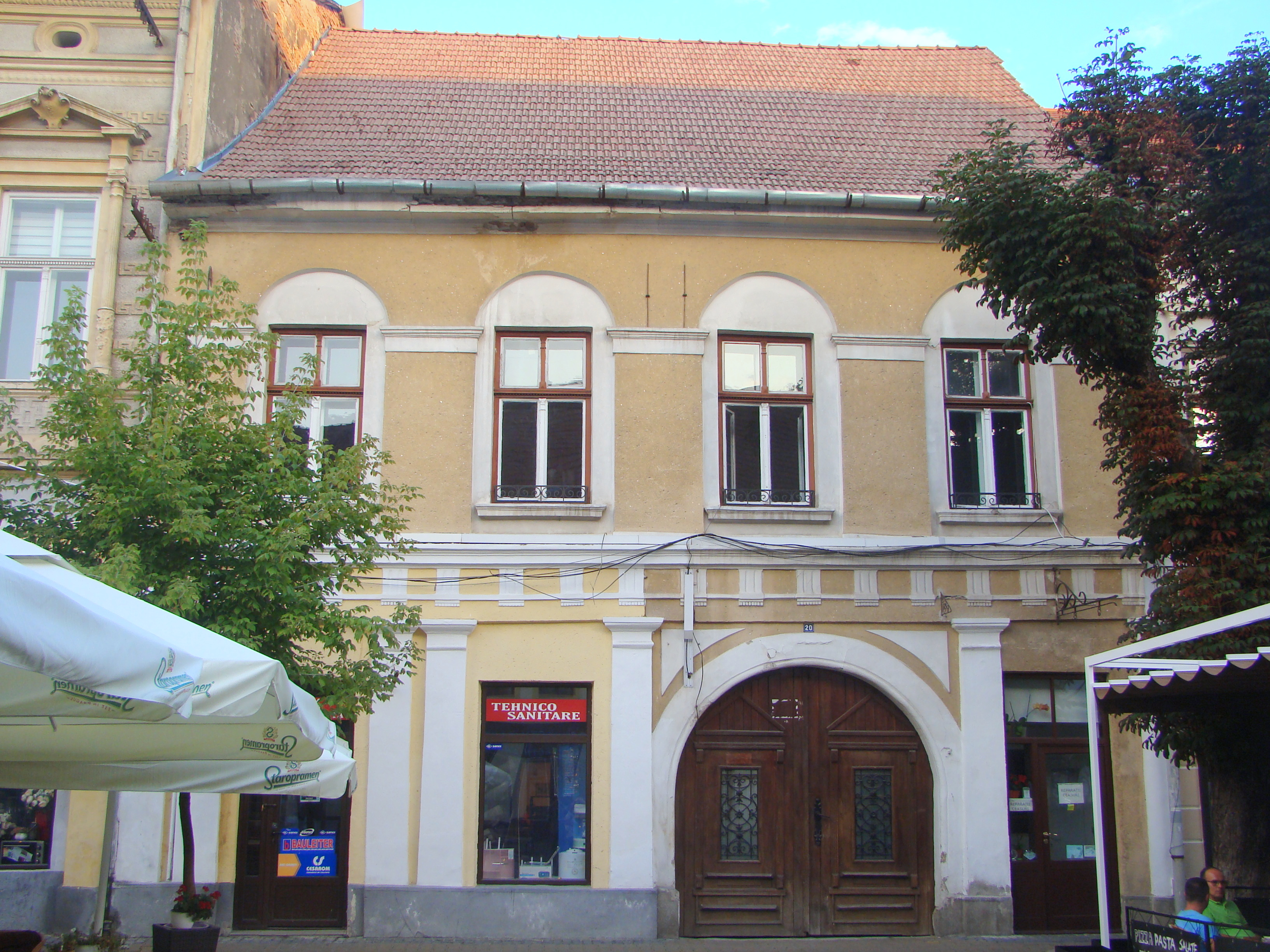 House, historic monument, in Bistrița, Liviu Rebreanu street 20